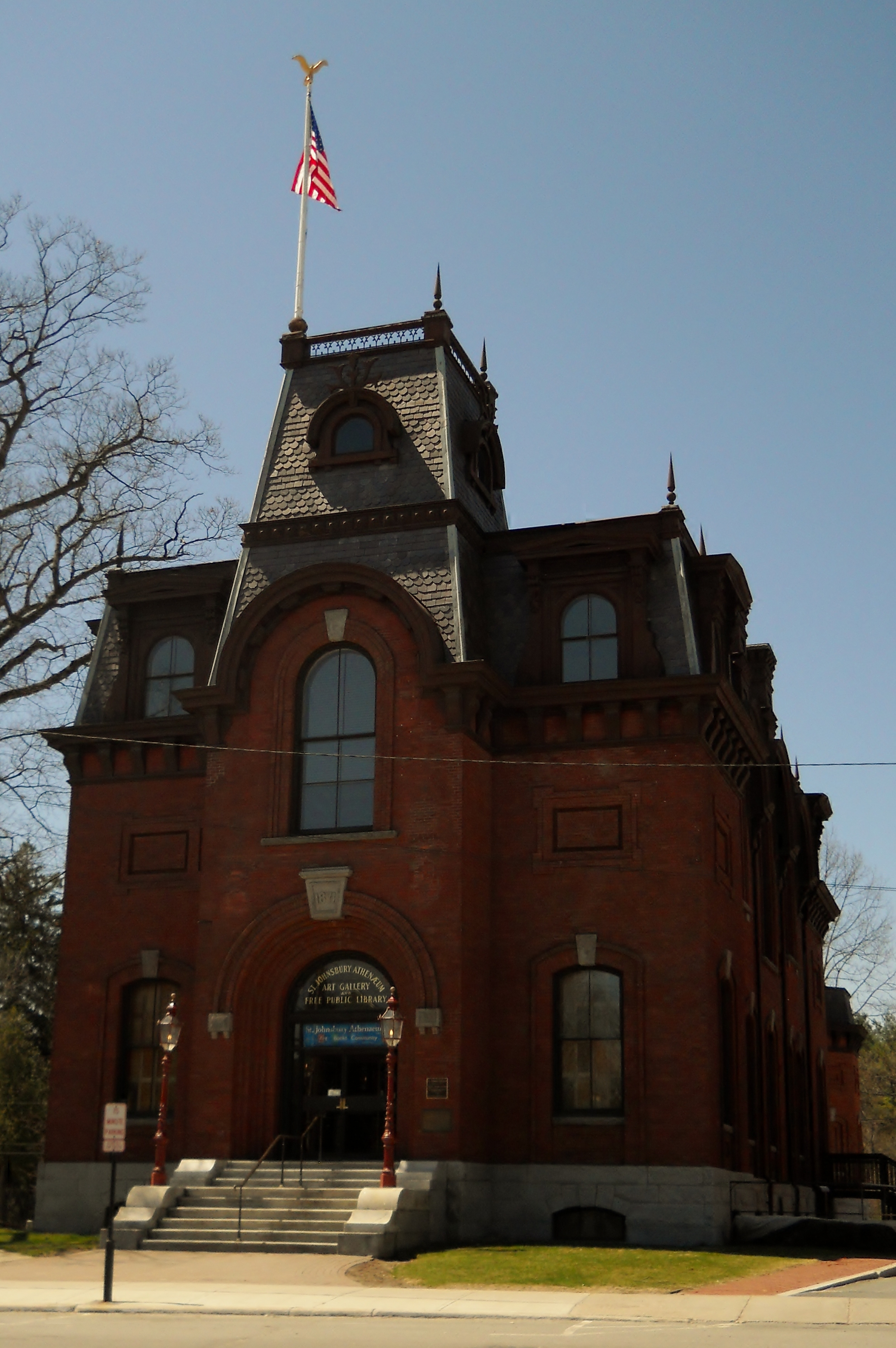 The St. Johnsbury Athenaeum on Main Street in St. Johnsbury, Vermont